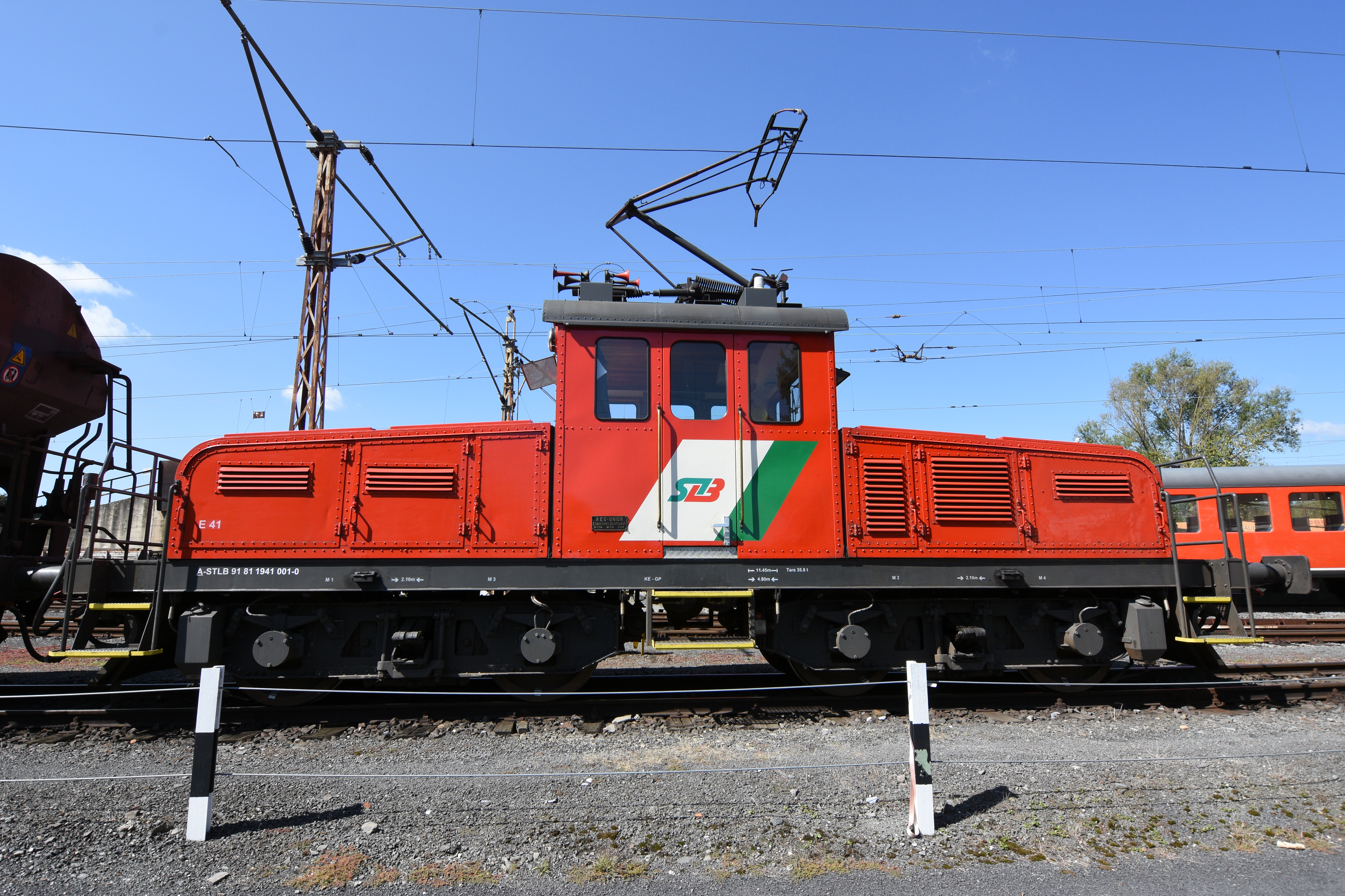 Feldbach–Bad Gleichenberg railway line